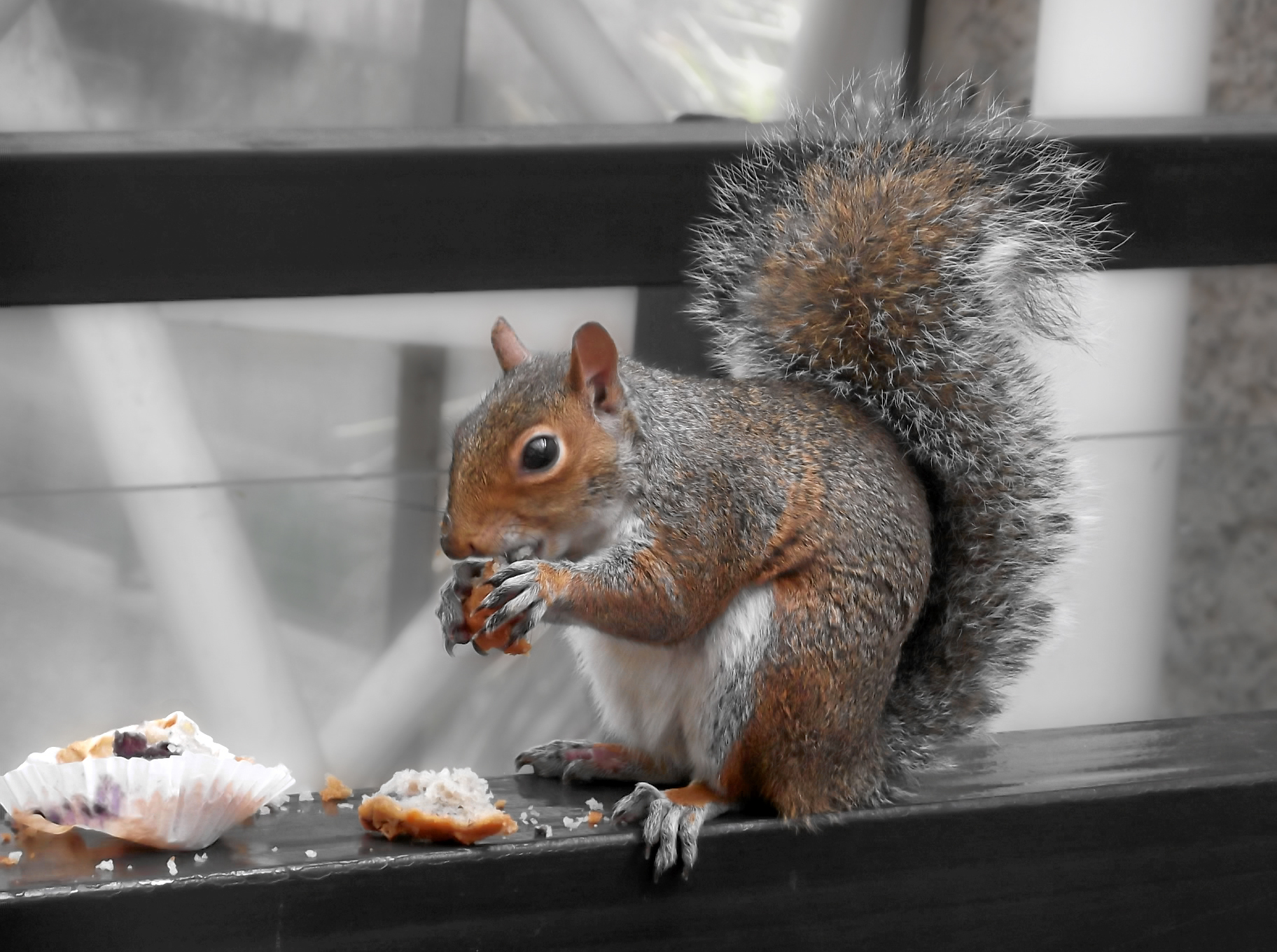 Eastern Gray Squirrel at Barbican Centre, london, feeding on cake.